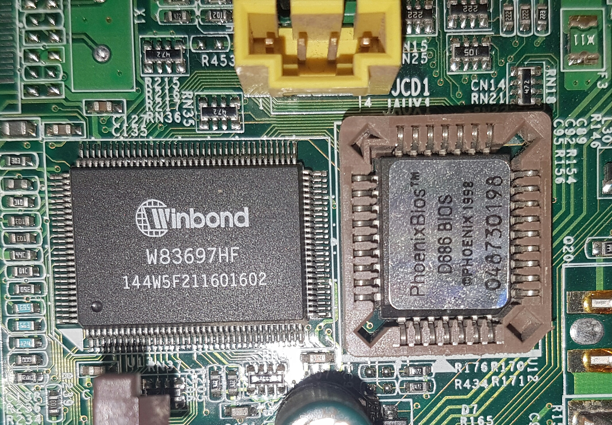 PhoenixBIOS chip by Award along with Winbond W83697HF Super I/O controller on Pentium 4 motherboard MSI MS-6524.